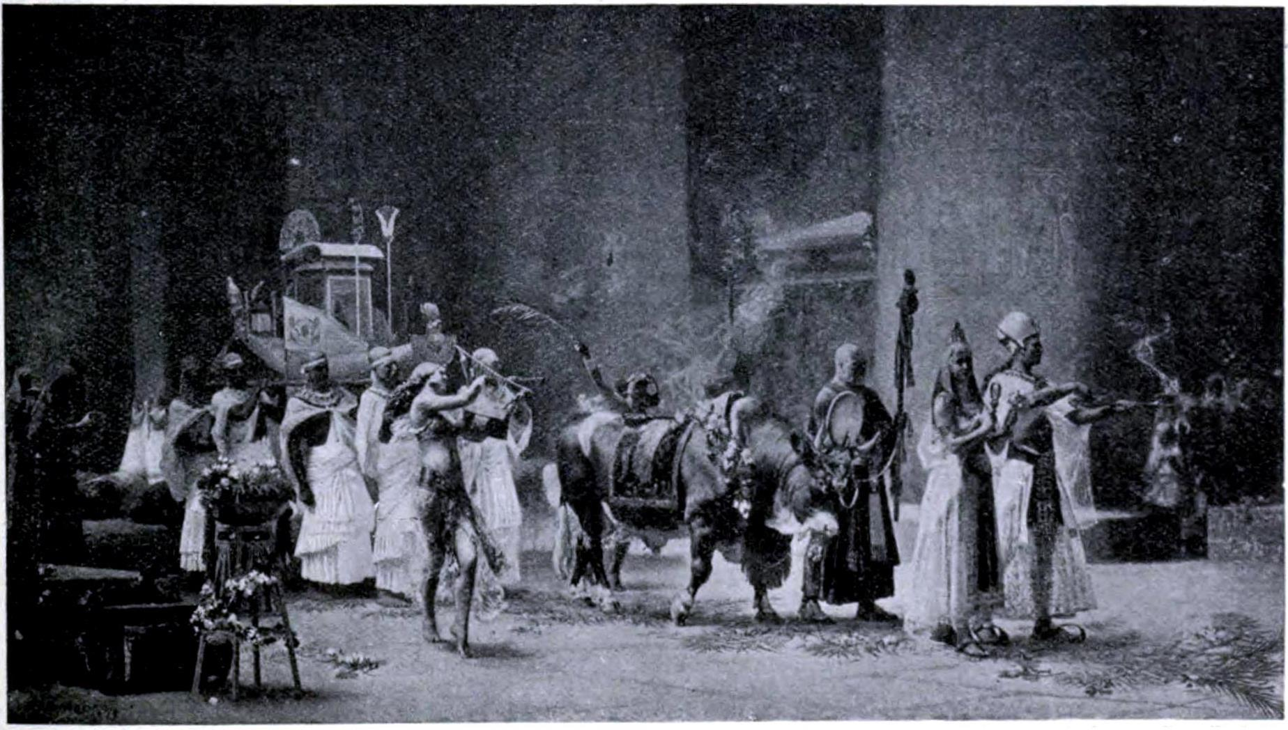 Hutchinson's story of the nations, containing the Egyptians, the Chinese, India, the Babylonian nation, the Hittites, the Assyrians, the Phoenicians and the Carthaginians, the Phrygians, the Lydians, and other nations of Asia Minor Published [n.d.] Topics Asia -- History SHOW MORE 26 Publisher London, Hutchinson Pages 410 Possible copyright status NOT_IN_COPYRIGHT Language English Call number AER-3187 Digitizing sponsor MSN Book contributor Robarts - University of Toronto Collection robarts; toronto Full catalog record MARCXML [Open Library icon]This book has an editable web page on Open Library.